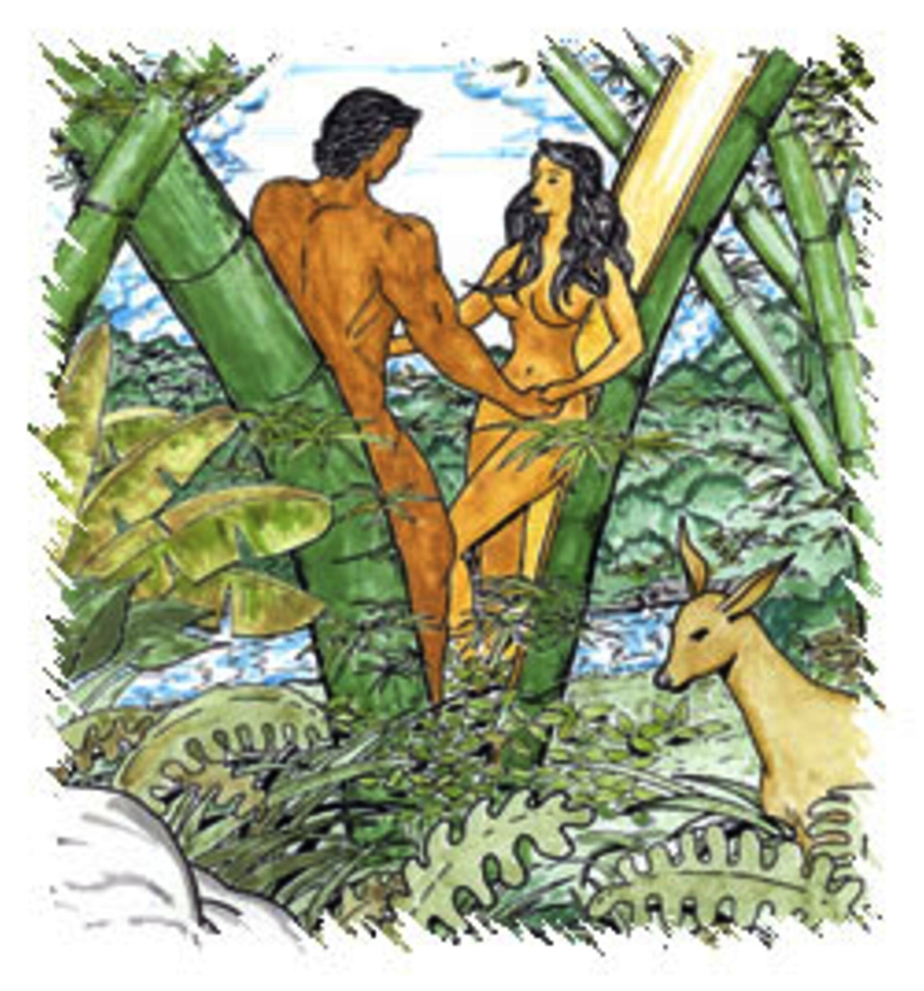 Illustration of Malakas and Maganda, the first man and woman of Philippine folklore, awakened and emerging from a split giant bamboo.